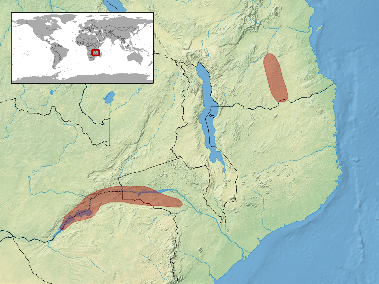 geographic distribution of Elasmodactylus tetensis (Native: Mozambique; Tanzania, United Republic of)